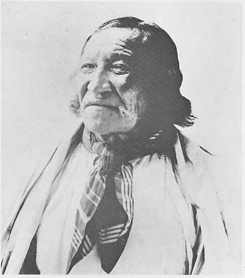 Crow Dog (1833 - 1910) — an Oglala Lakota (Brule Lakota) Chief.